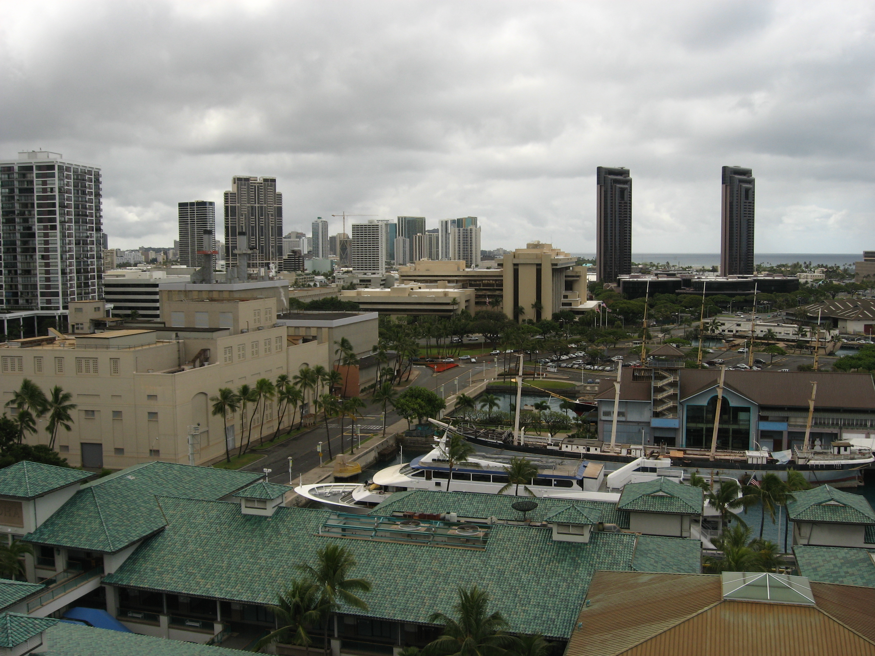 View from Aloha Tower in Honolulu, Hawaii